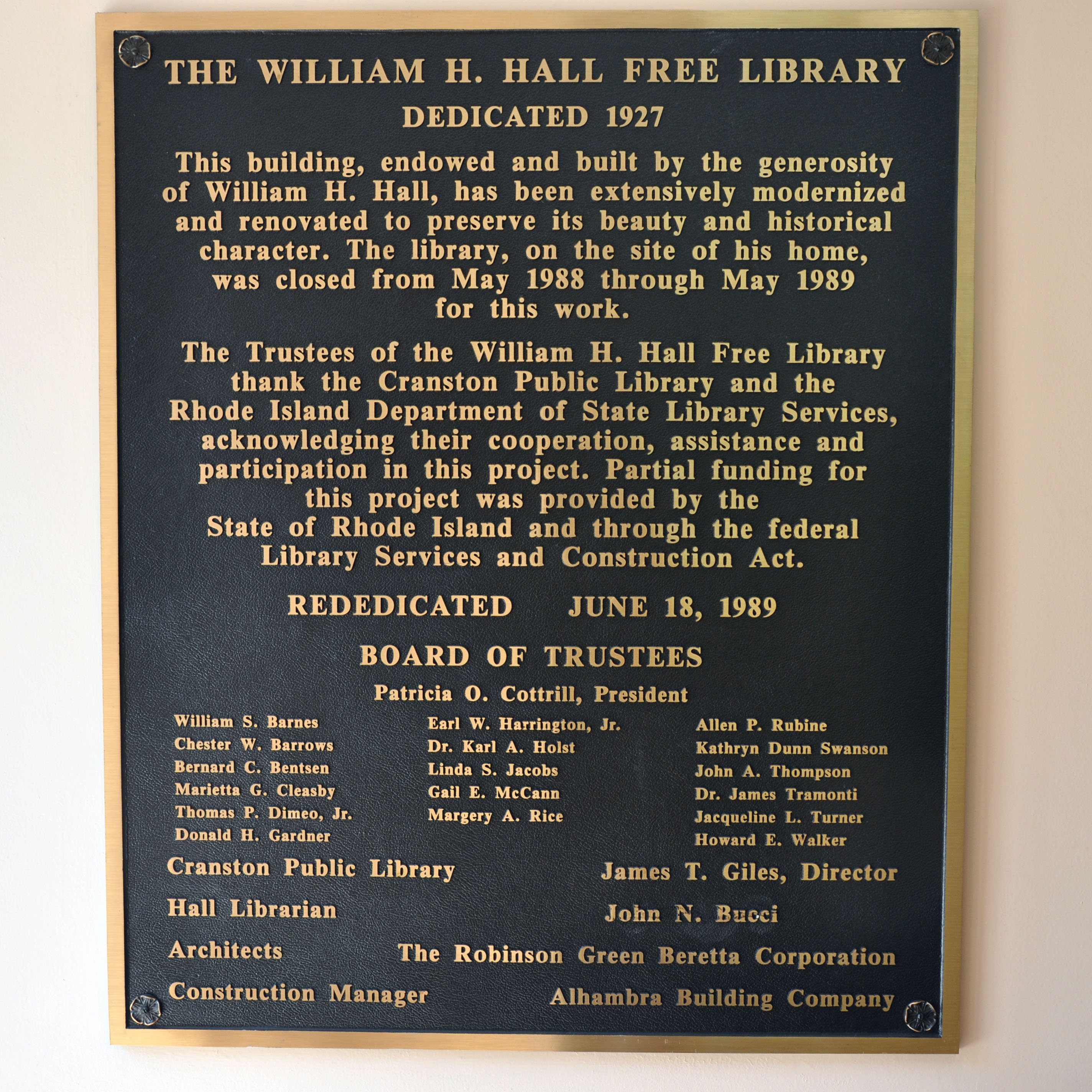 The William Hall Library is one of the more remarkable library structures in Cranston due to its ornate architecture.